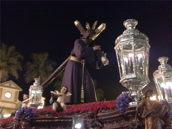 Ntro. Padre Jesús del Gran Poder.